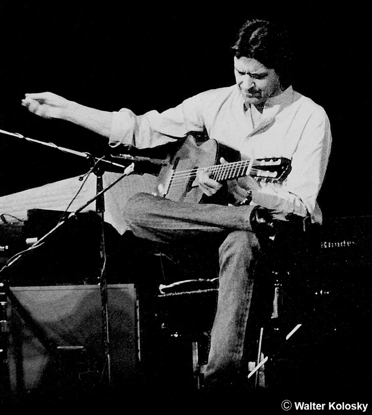 John McLaughlin performing at Bushnell Auditorium in Hartford, CT in 1982.